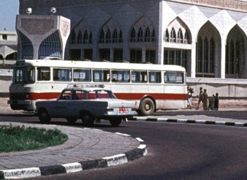 Ikarus 556 in July of 1973 in front of Buniya moqsue in Al-Alawi area of Baghdad (Iraq)